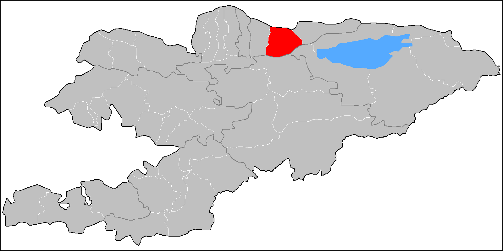 The location of the raion (district) of Chüy in Kyrgyzstan. Based on Image:Kyrgyzstan raions.png